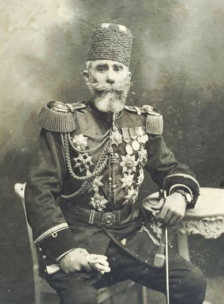 Mahmud Shevket Pasha, Ottoman general and statesman.